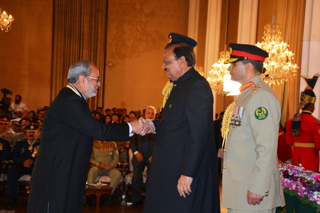 Receiving Hilal Imtiaz from President of Pakistan